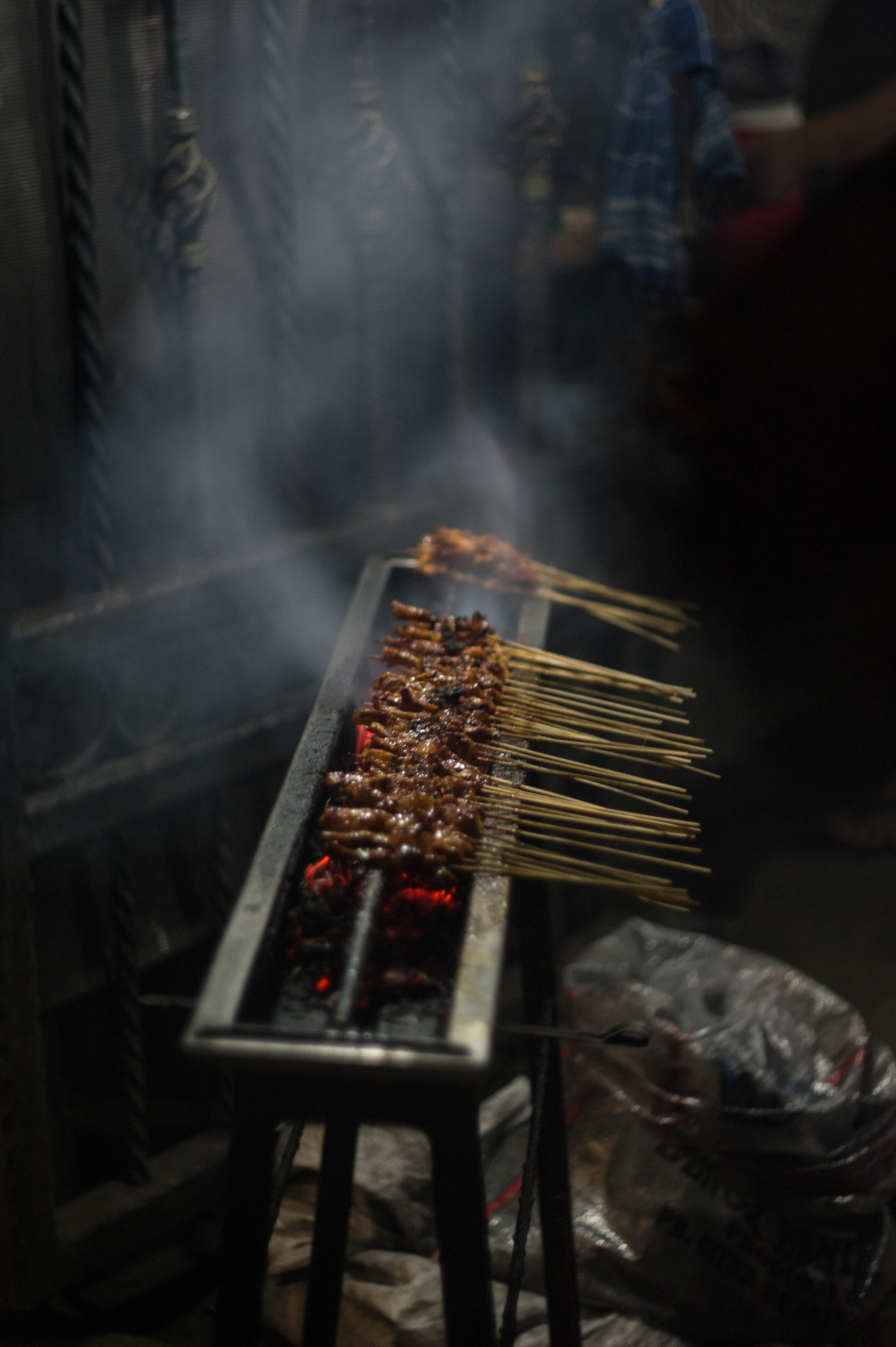 Chicken satay, cooked on red-hot charcoal. This is Maduranese satay. Samsung NX10 Yashinon-DS 50mm f/1.9